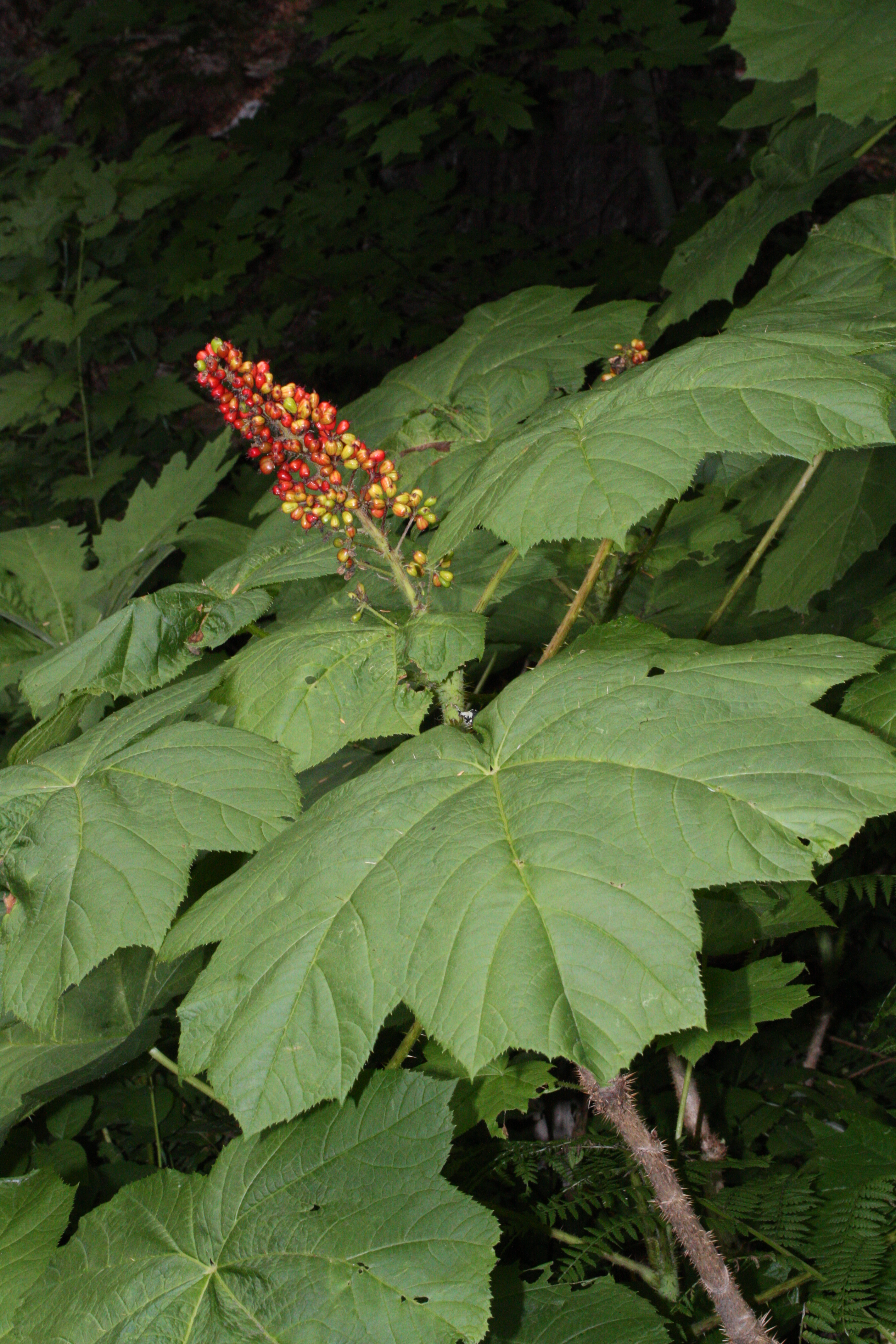 Devil's Club